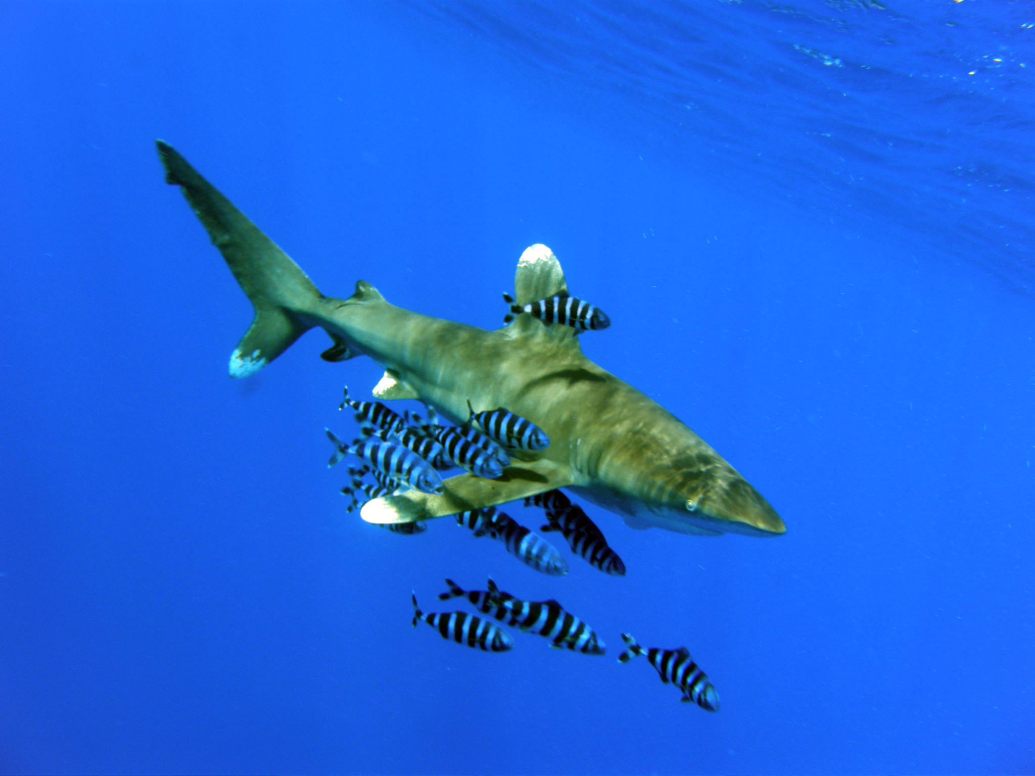 Picture of an Oceanic whitetip shark, taken October 2009 at Daedalus Reef, Red Sea, Egypt